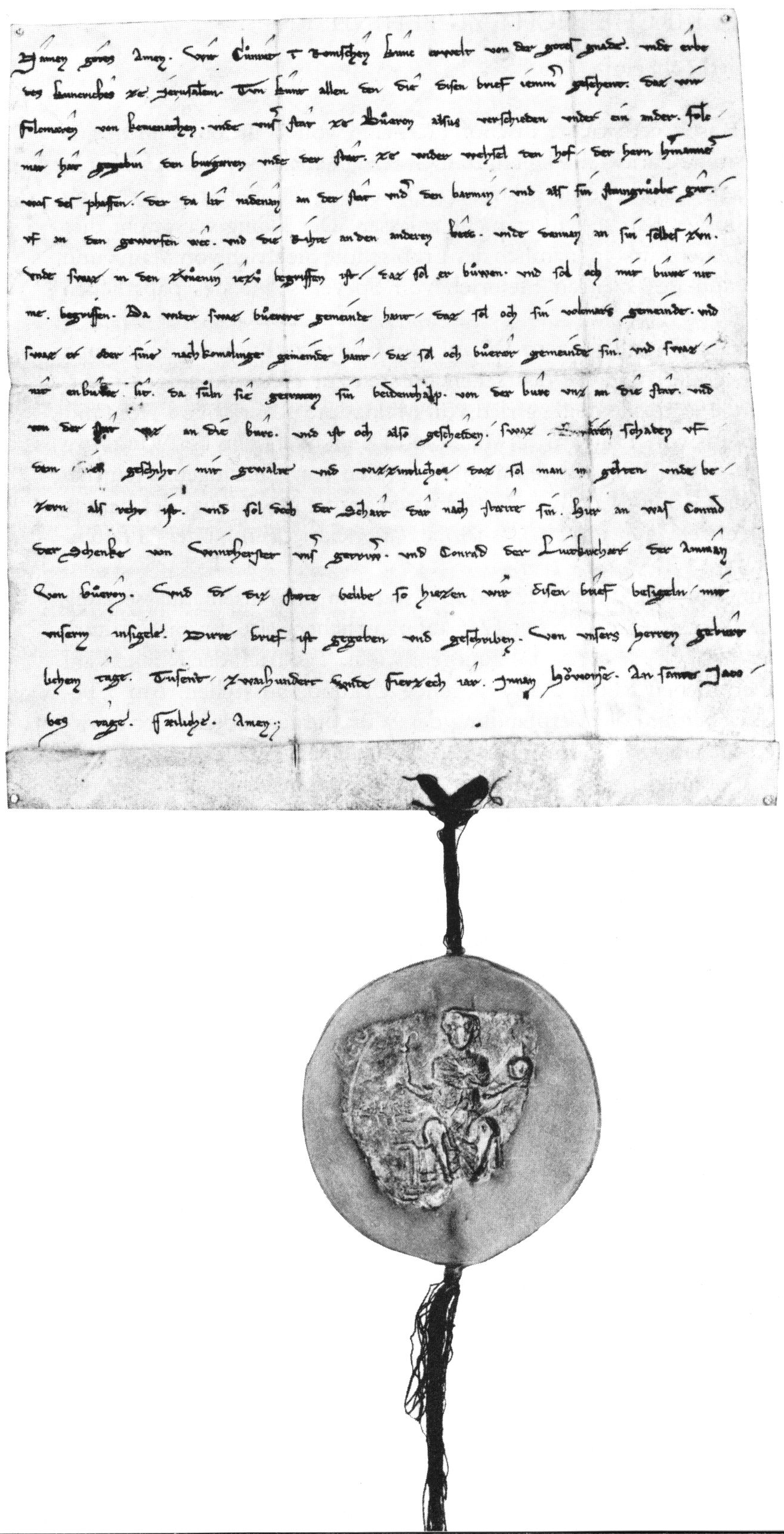 Charter of king Conrad IV of Germany, announcing the settlement between Volkmar II of Kemnat and the city of Kaufbeuren. This ist the earliest royal charter in German language. Issued on July 25th, 1240. München, Bayerisches Hauptstaatsarchiv, Kaiserselekt 766.